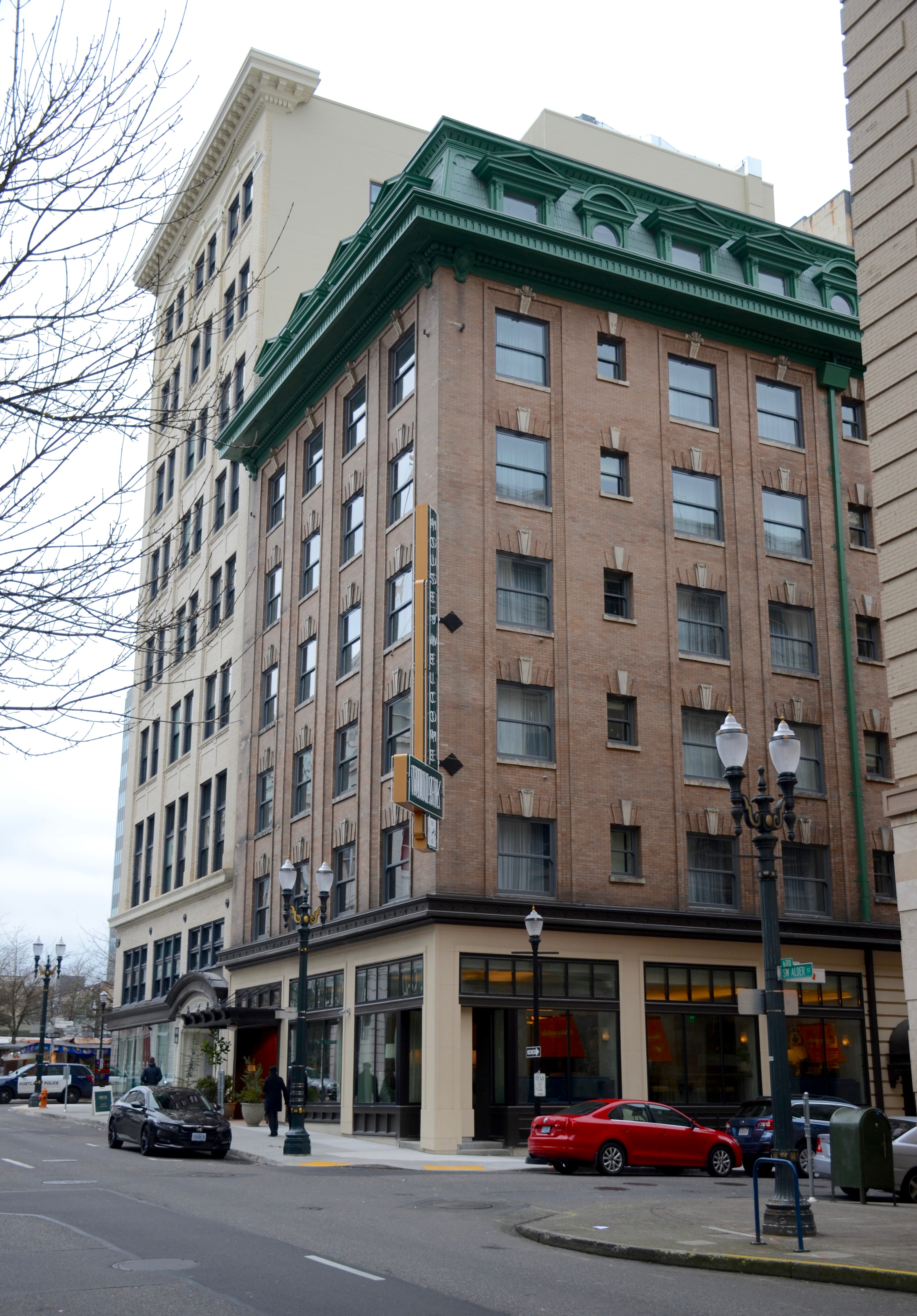 The Woodlark House of Welcome hotel (in Portland, Oregon) when newly opened, in December 2018. The hotel is composed of two buildings that were constructed more than a century earlier and were extensively renovated for the hotel project: The 1912 Woodlark Building (at left, in background) and the 1908 Cornelius Hotel. Both buildings are listed on the U.S. National Register of Historic Places. A tall sign for the new hotel can be seen affixed to the corner of the nearer building.